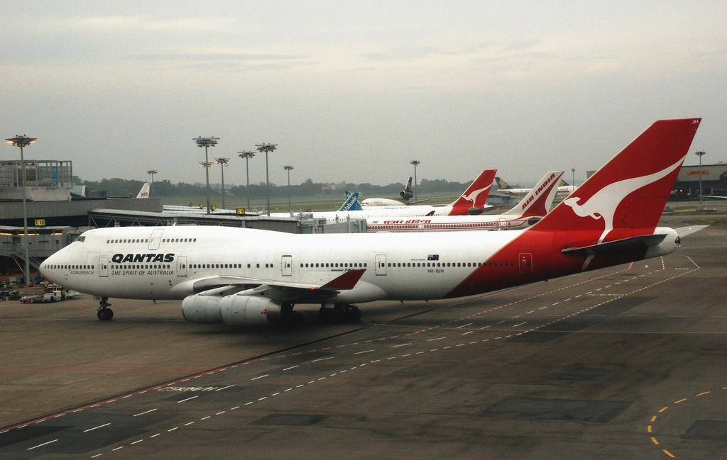 Qantas Boeing 747-400 (VH-OJH) parking at Gate C13 at Singapore Changi Airport. Note: This aircraft was the plane involved in the QF1 incident in 1999.